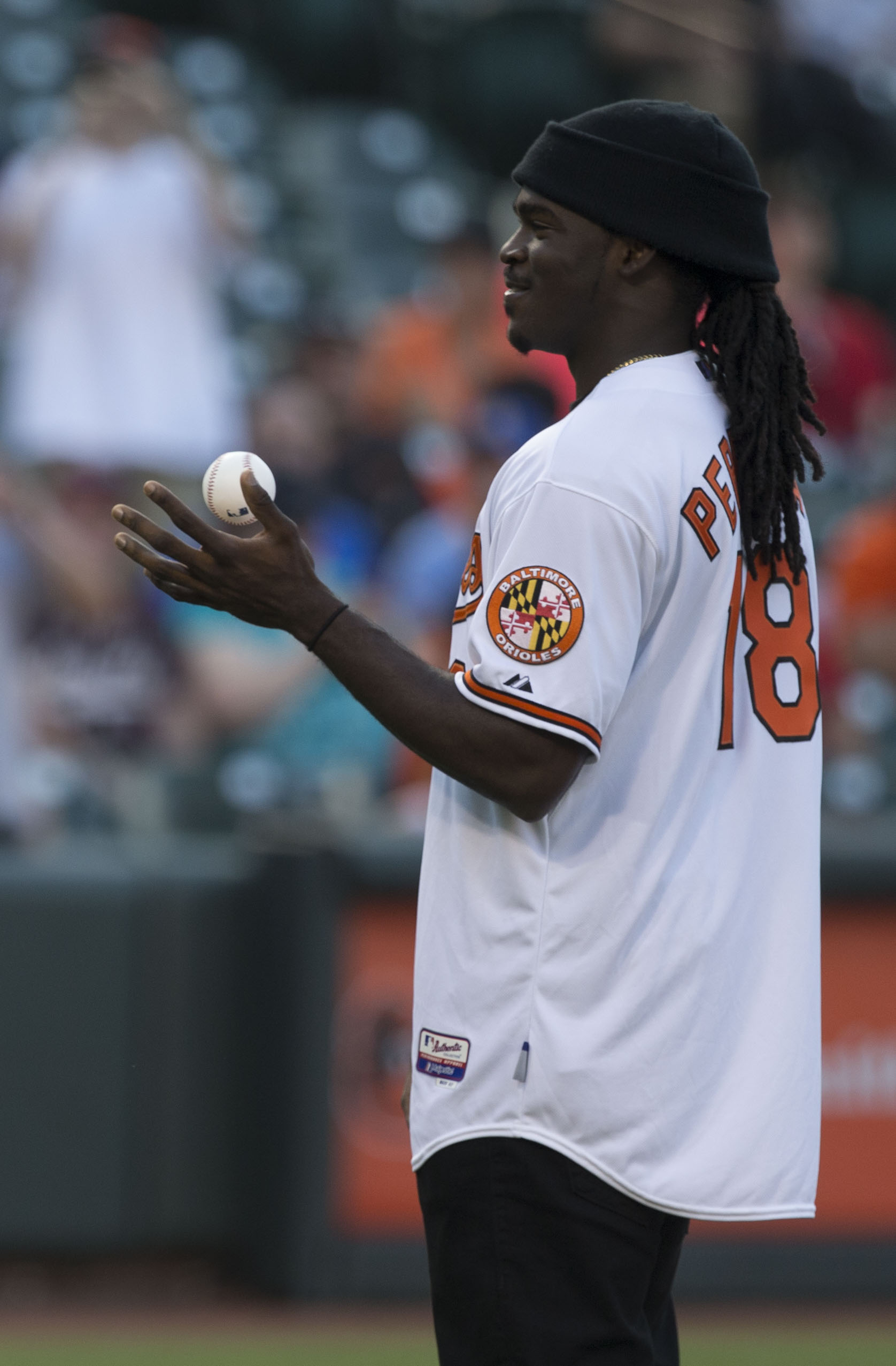 Mariners at Orioles 5/19/15